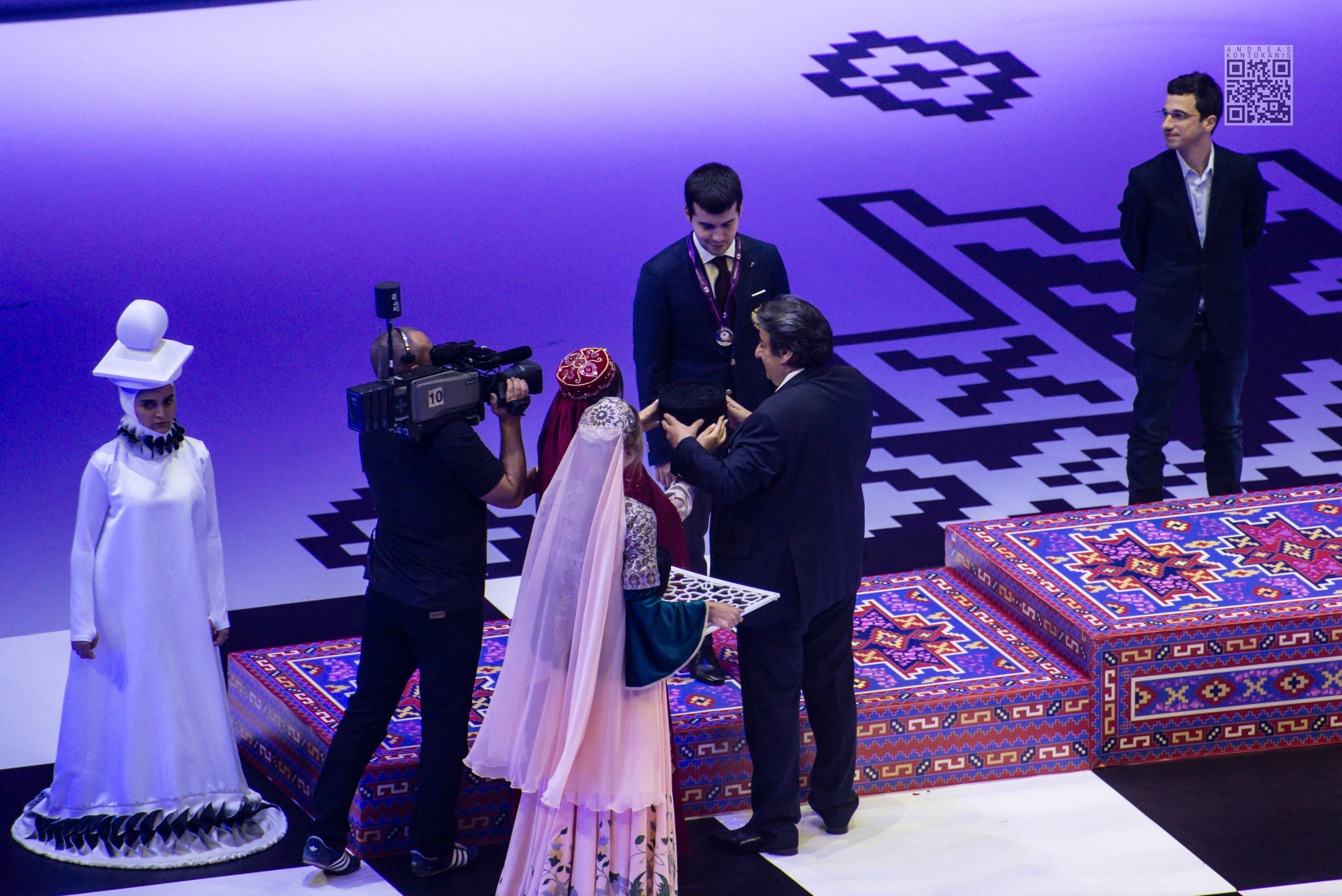 Nepomniachtchi Ian receives his medal